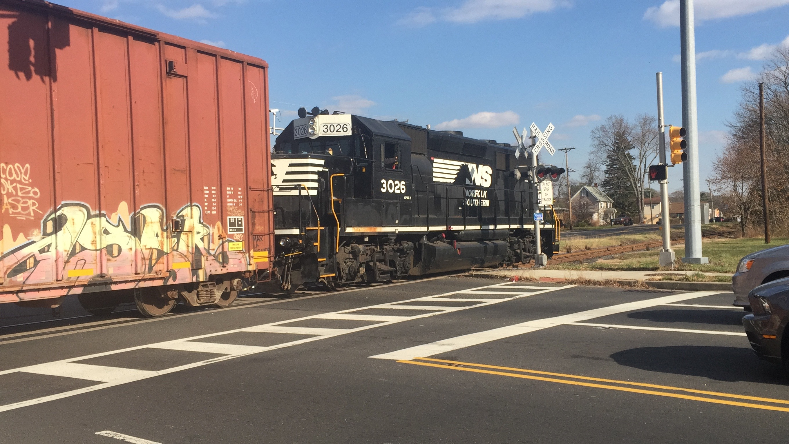 A Norfolk Southern GP40-2 3026 (ex Conrail Blue) pulls a short freight train across Ark Road in Mount Laurel, New Jersey on a breezy December afternoon.